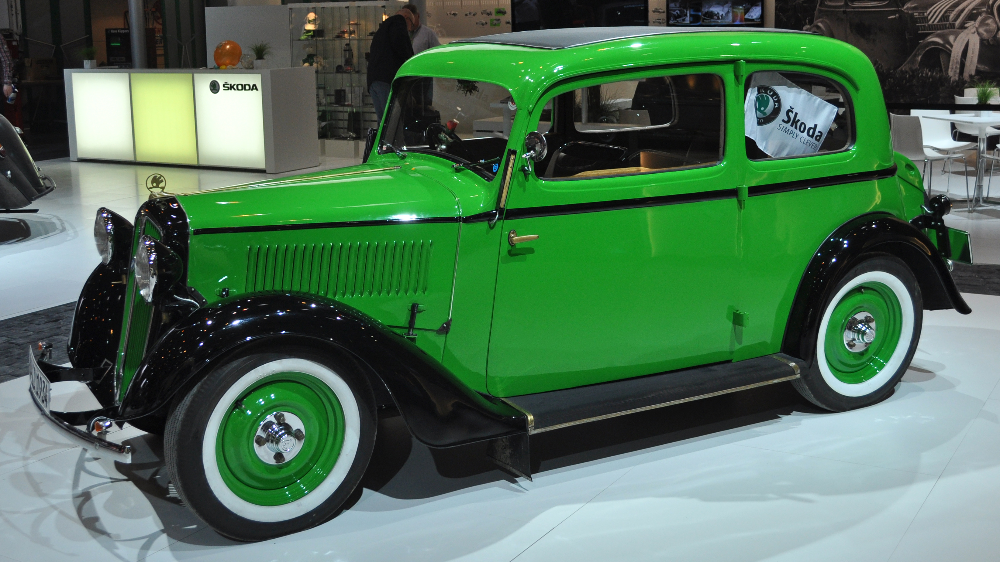 Skoda 420 Rapid (1934) at the Technoclassica 2013 in Essen